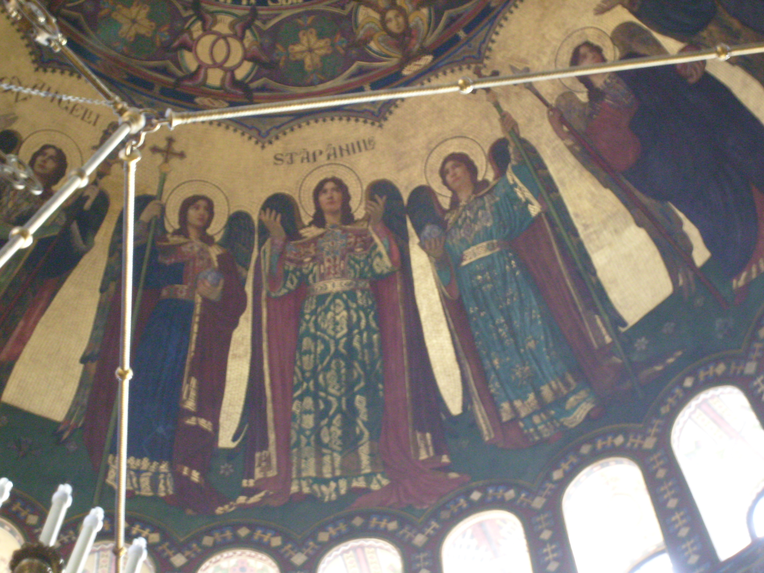 Smigelschis painting in the Orthodox Cathedral of Sibiu.